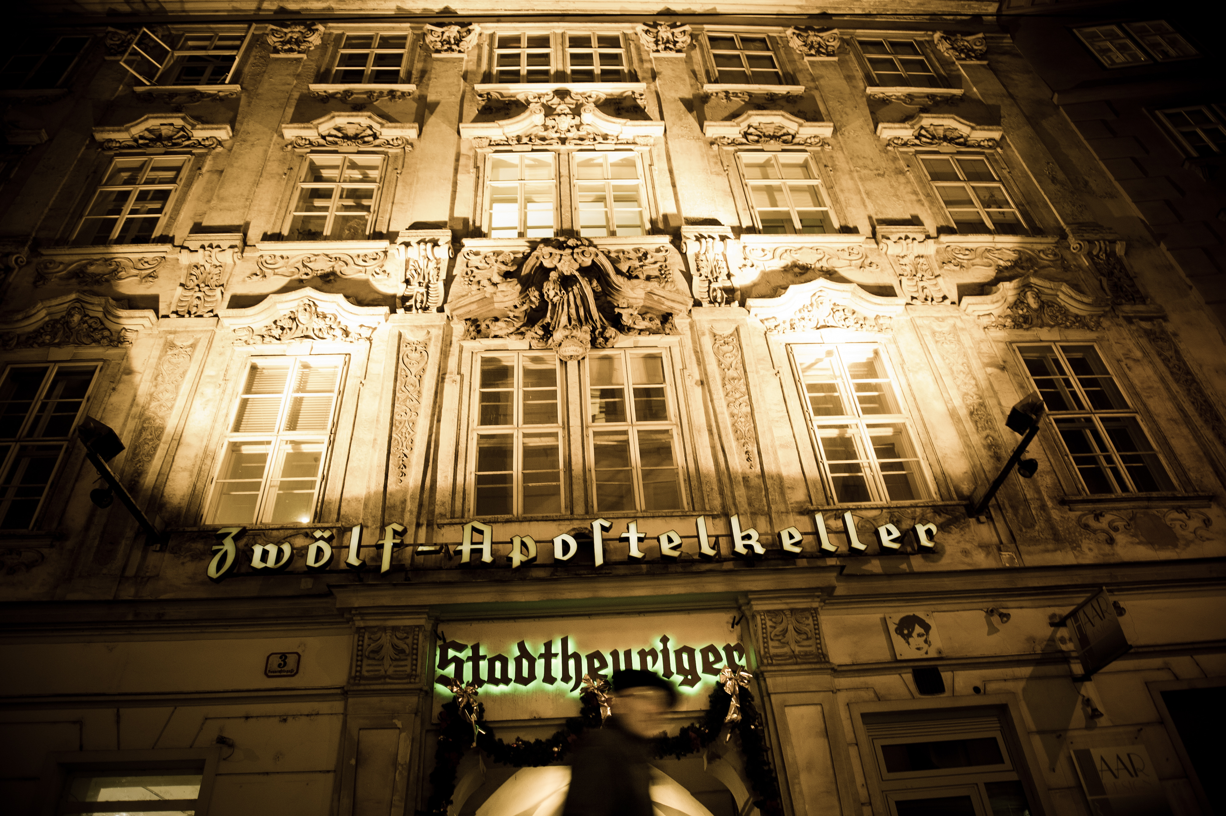 Twelve Apostles cellar (ZwГ¶lf Apostelkeller) facade, Vienna, Sonnenfelsgasse 3. Austria, Western Europe.